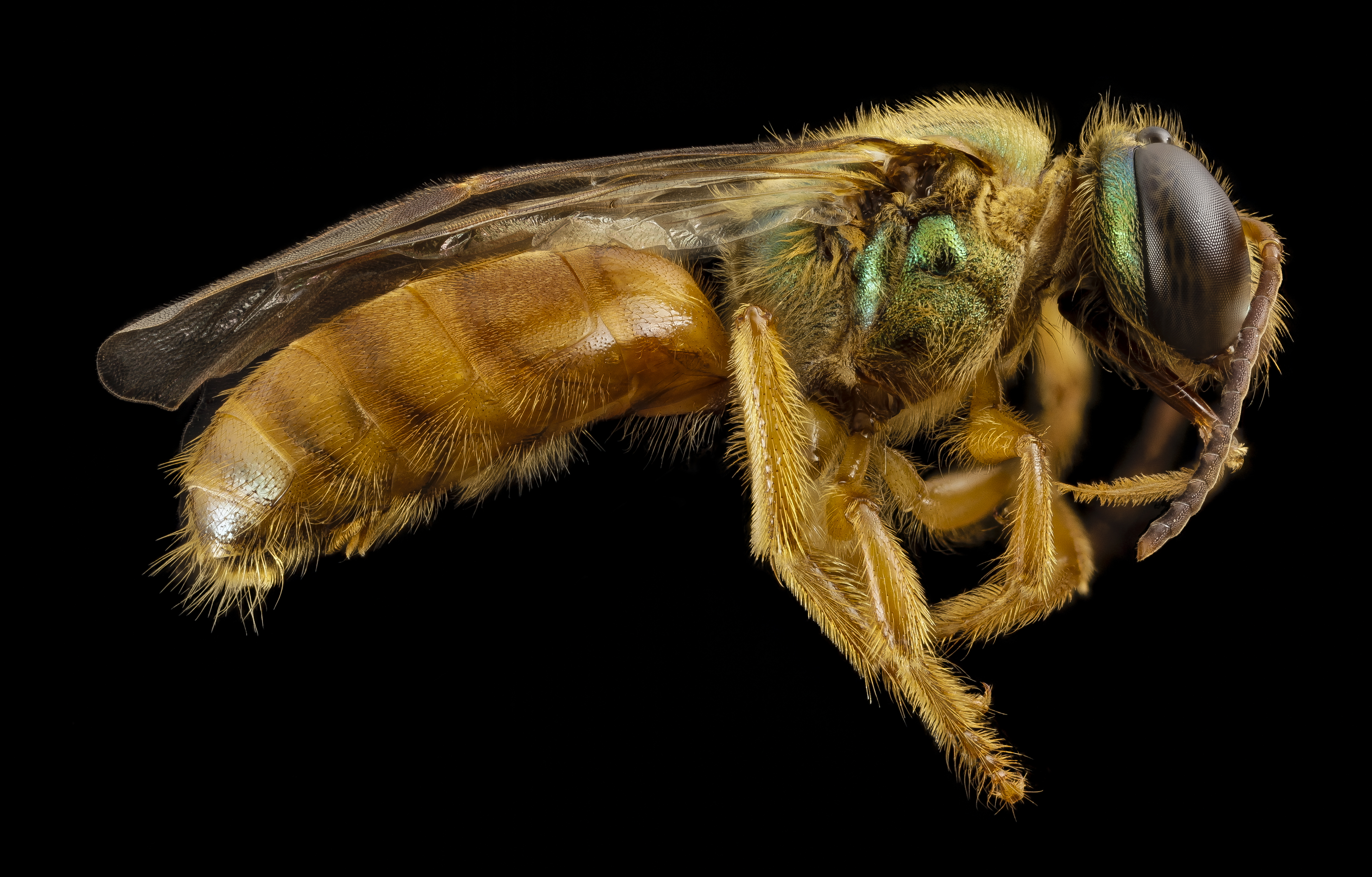 Megalopta genalis, male, collected on Barro Colorado Island in Panama by researcher Adam Smith. All photographs are public domain, feel free to download and use as you wish.